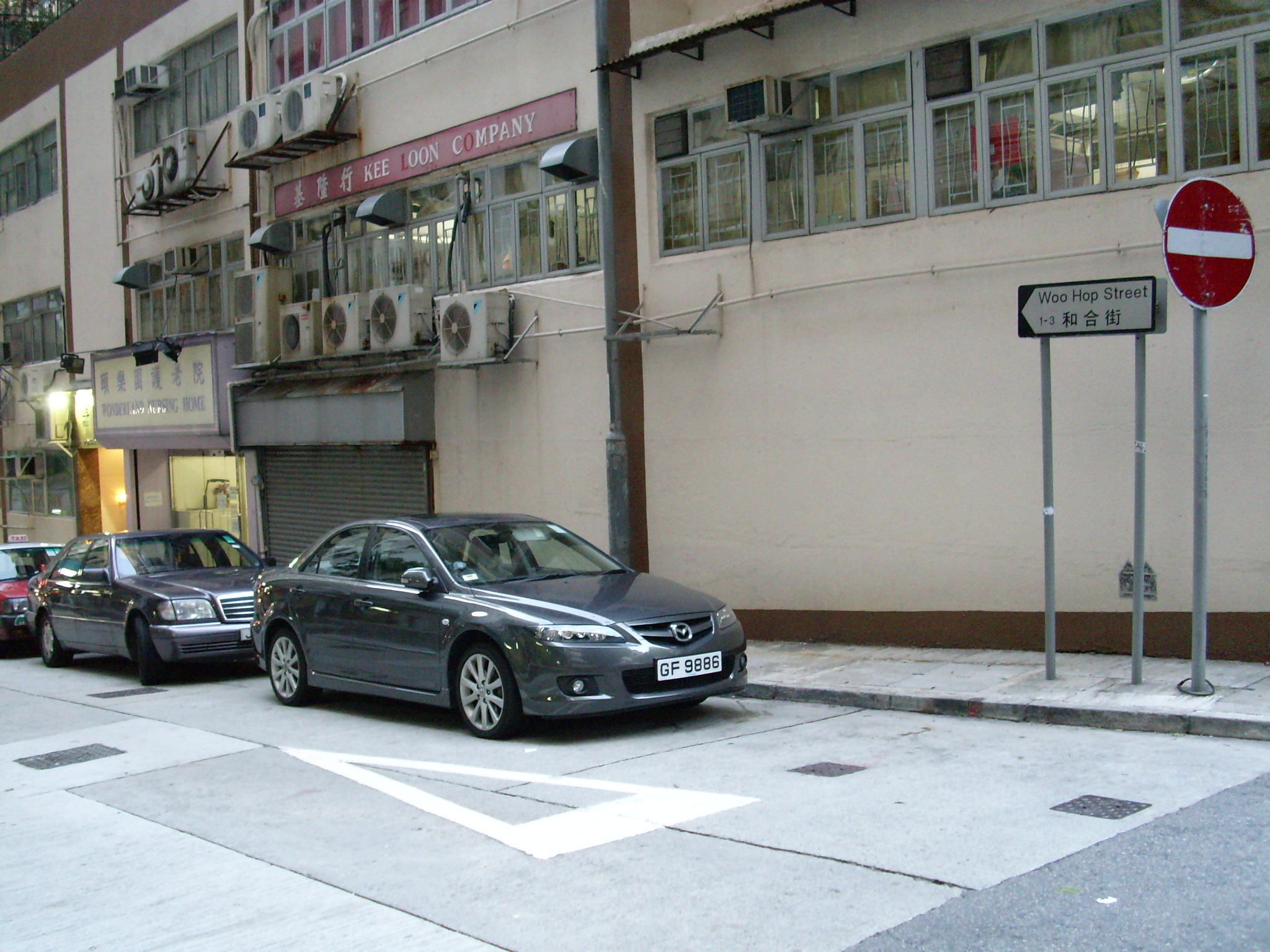 Woo Hop Street in Hong Kong island West